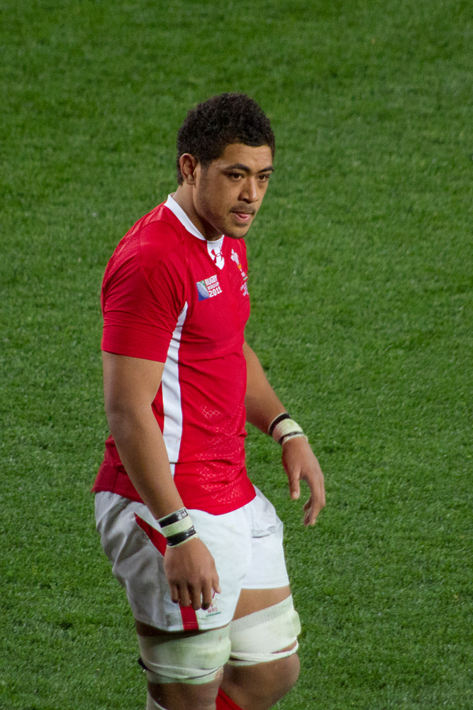 Tongan born Welsh rugby union player Toby Faletau after 2011 Rugby World Cup Bronze Final against Australia.